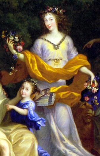 Detail showing Henrietta of England as Flora and her daughter Marie Louise.